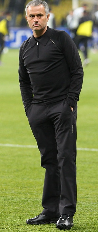 José Mourinho